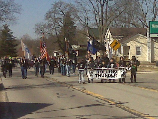 Rolling Thunder, a non-profit organization that works to address POW-MIA issues, performs in the annual St. Patrick's Day Parade in Pinckney, MI.